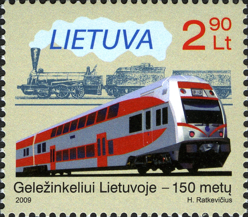 Lithuanian railways - 150 years, electric train EJ 575, Lithuanian Post